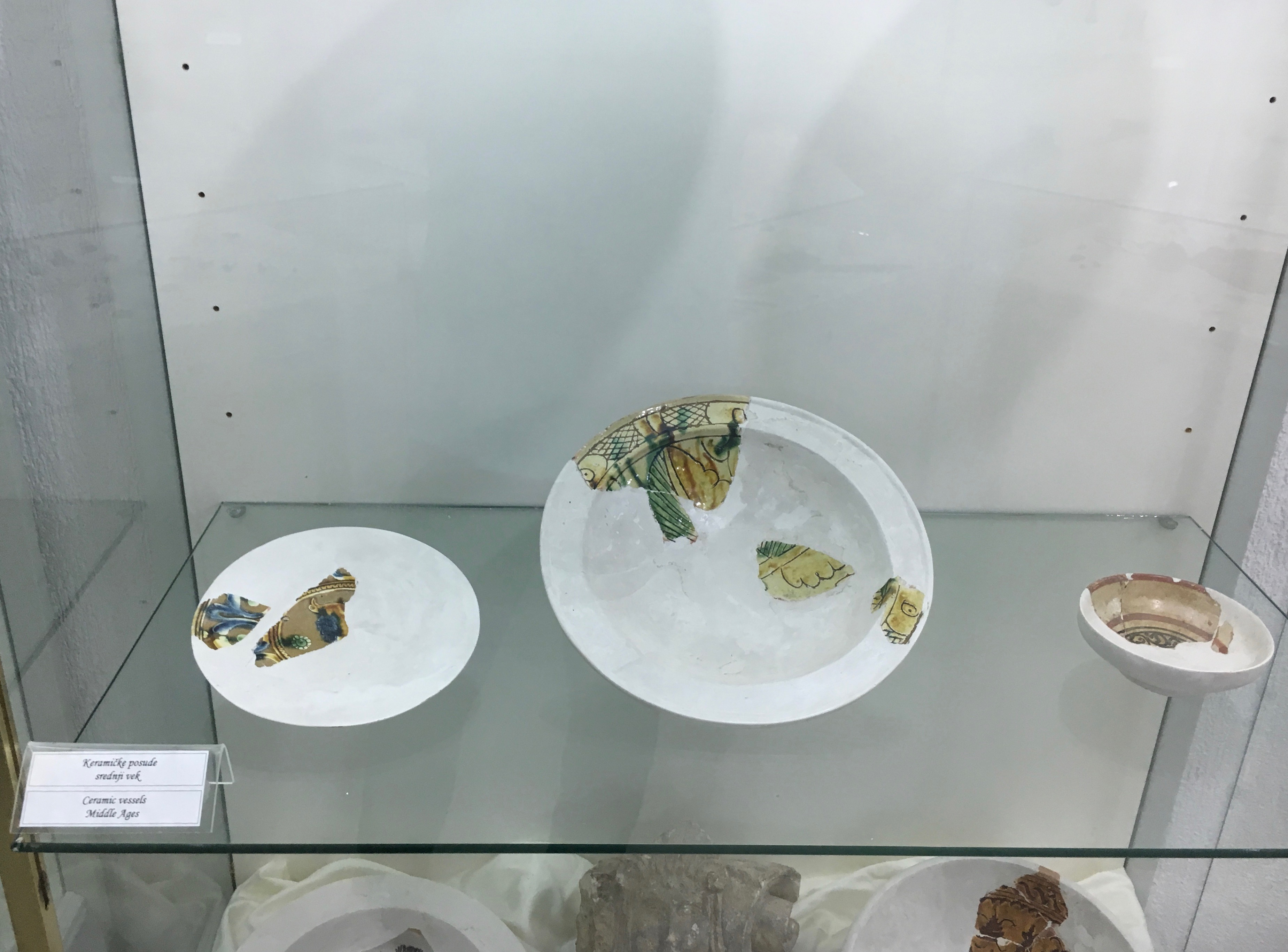 Reconstructed medieval ceramic vessels. Phote taken in an exposition of Budva Museum of archeology, Budva, Montenegro. The museum displays the founds from the archeological excavations in Budva Old Town.